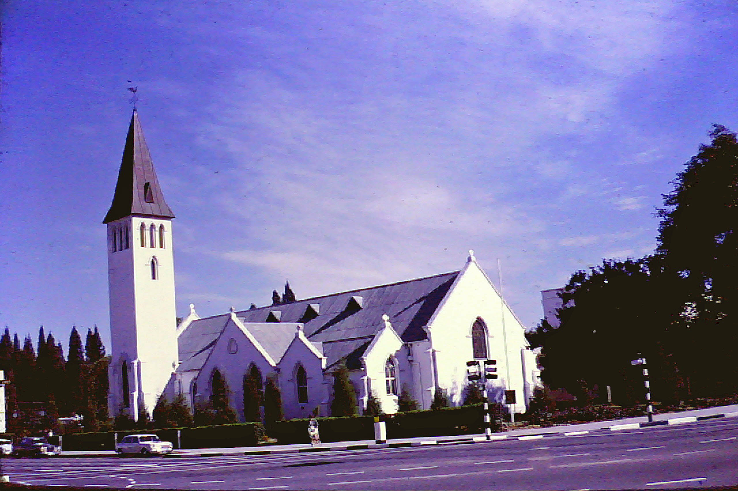 The Central Presbyterian Church on Jameson Avenue in Salisbury (now Harare) circa 1975.